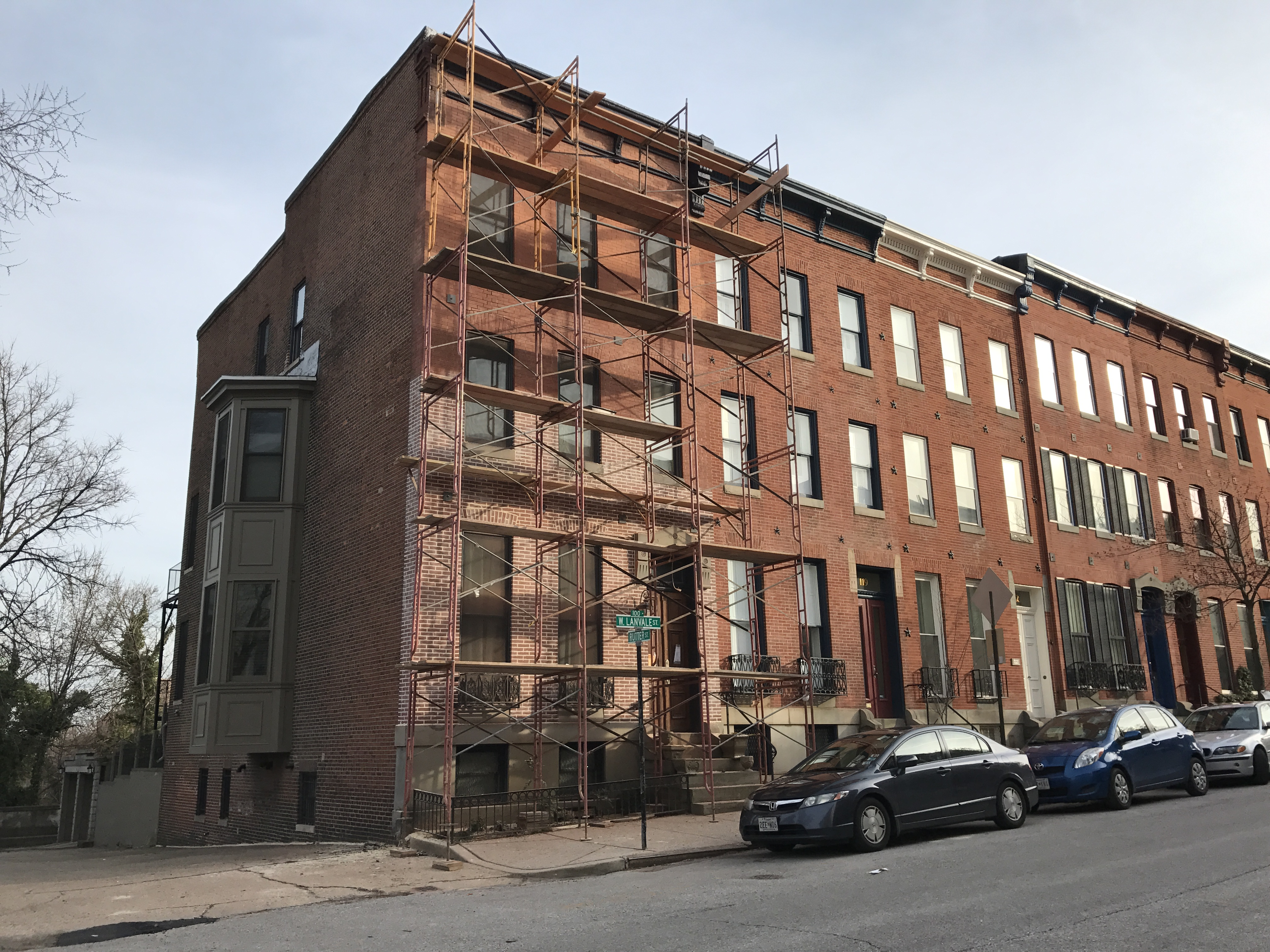 Photograph by Eli Pousson, 2017 March 21.